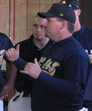 Keith Shumate, head coach of the North Carolina A&T baseball team, addresses his players during the 2007 MEAC Baseball Tournament.